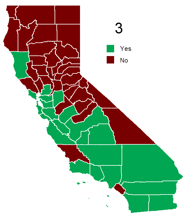 Election results by county.